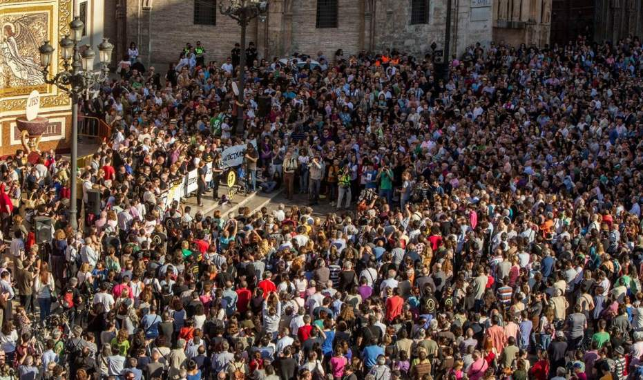 A 3rd of July Association's demostration asking for a further judicial investigation of Valencia Metro derailment